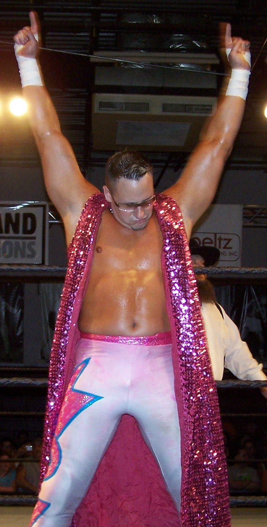 Photo of Danny Doring taken during a house show at the New Alhambra Arena.